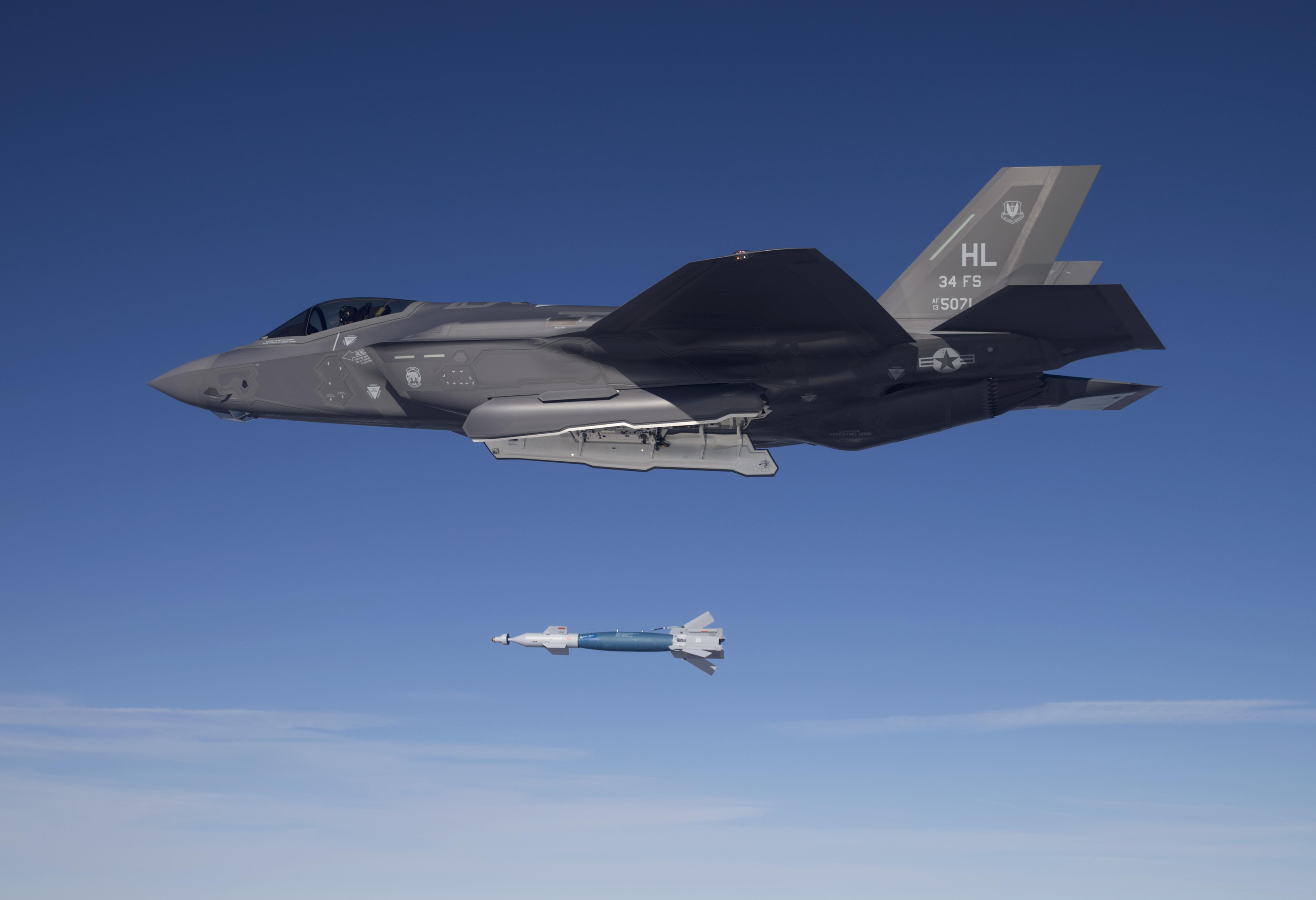 U.S. Air Force Lt. Col. George Watkins, 34th Fighter Squadron commander, drops a GBU-12 laser-guided bomb from a Lockheed Martin F-35A Lightning II (s/n 13-5075) at the Utah Test and Training Range on 25 February 2016. The 34th FS was the U.S. Air Force's first combat unit to employ munitions from the F-35A. The 34th FS is assigned to the 388th Fighter Wing at Hill Air Force Base Utah (USA).